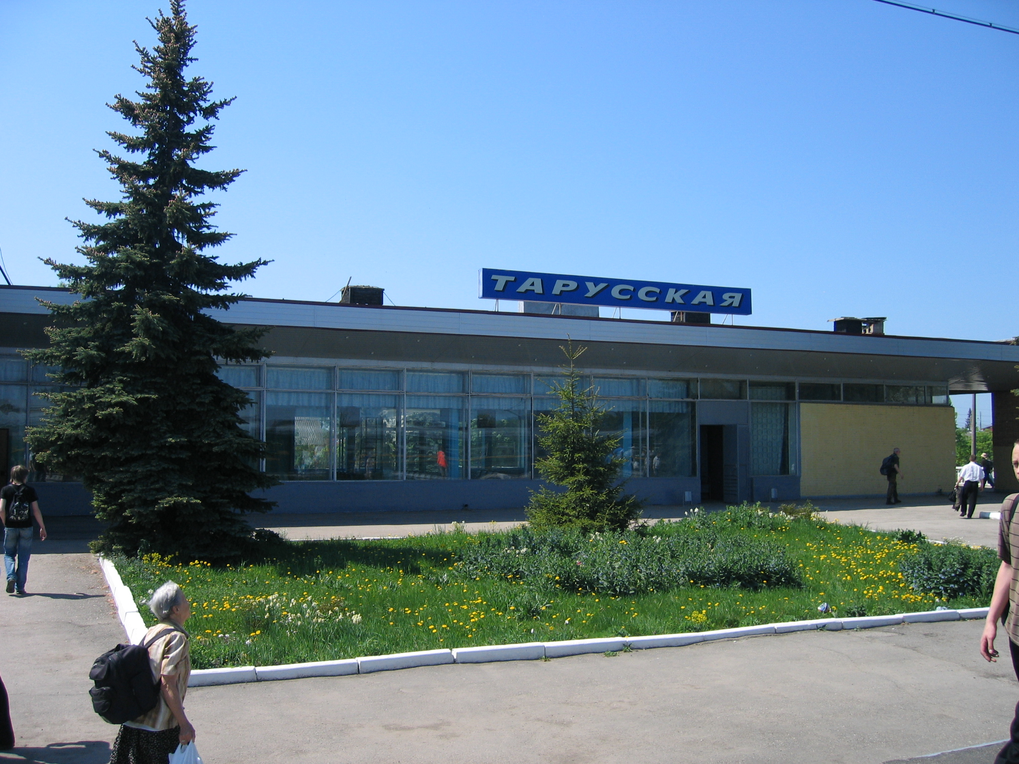 Tarusskaya station, Tula Oblast